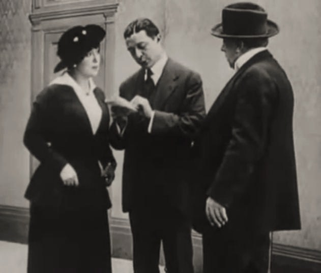 L. to R. : Jane Faber, Henri Desfontaines (actors) & André Antoine (theatre manager) in Ceux de chez nous - cropped screenshot